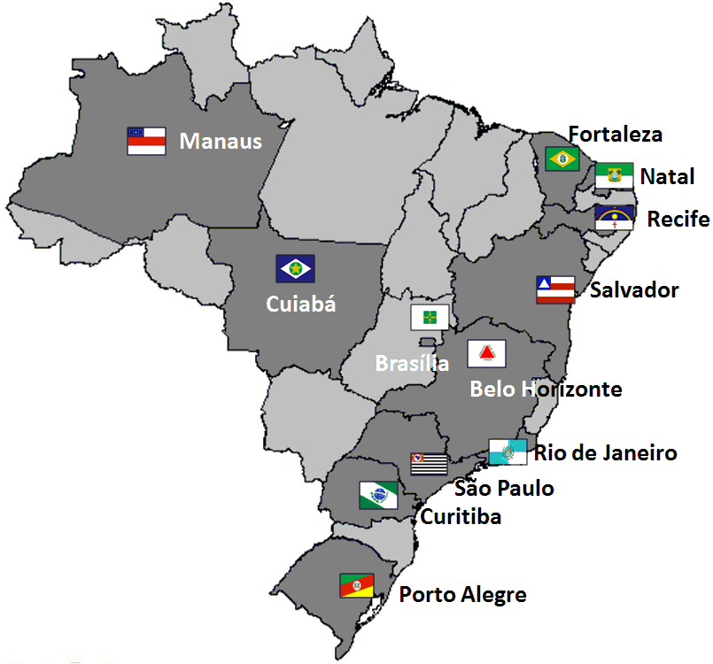 Map showing the host cities of FIFA 2014 World Cup